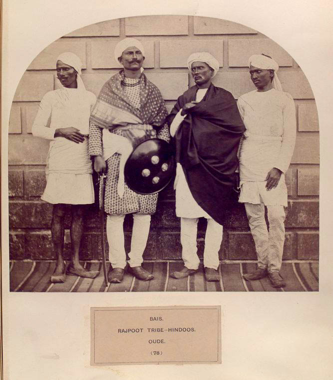 This image is from the book, The People of India, a series of photographic illustrations, with descriptive letterpress, of the races and tribes of Hindustan, originally prepared under the authority of the government of India, and reproduced. by J. Forbes Watson and John William Kaye between 1868 - 1875.